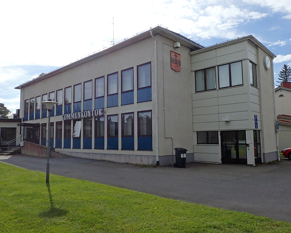 The old Municipality house of Hörnefors, designed by the architects Axel Grönwall and Ernst Hirsch in 1955 and inaugurated in December 1957. The armors of Hörnefors on the side.